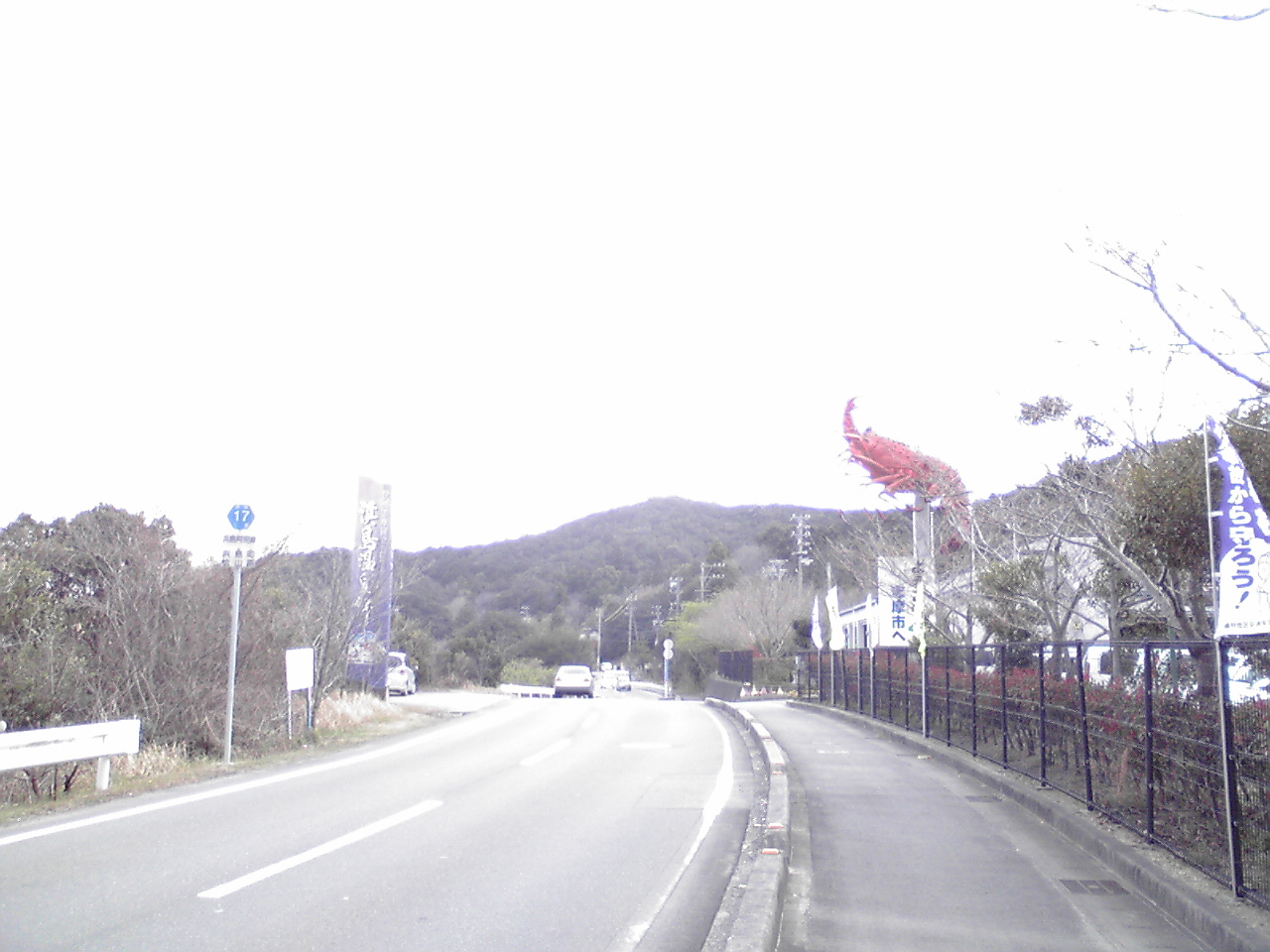 This is a landskape in Shima,Mie,Japan.